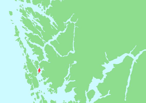 Locator map of Bjorøy, Hordaland, Norway